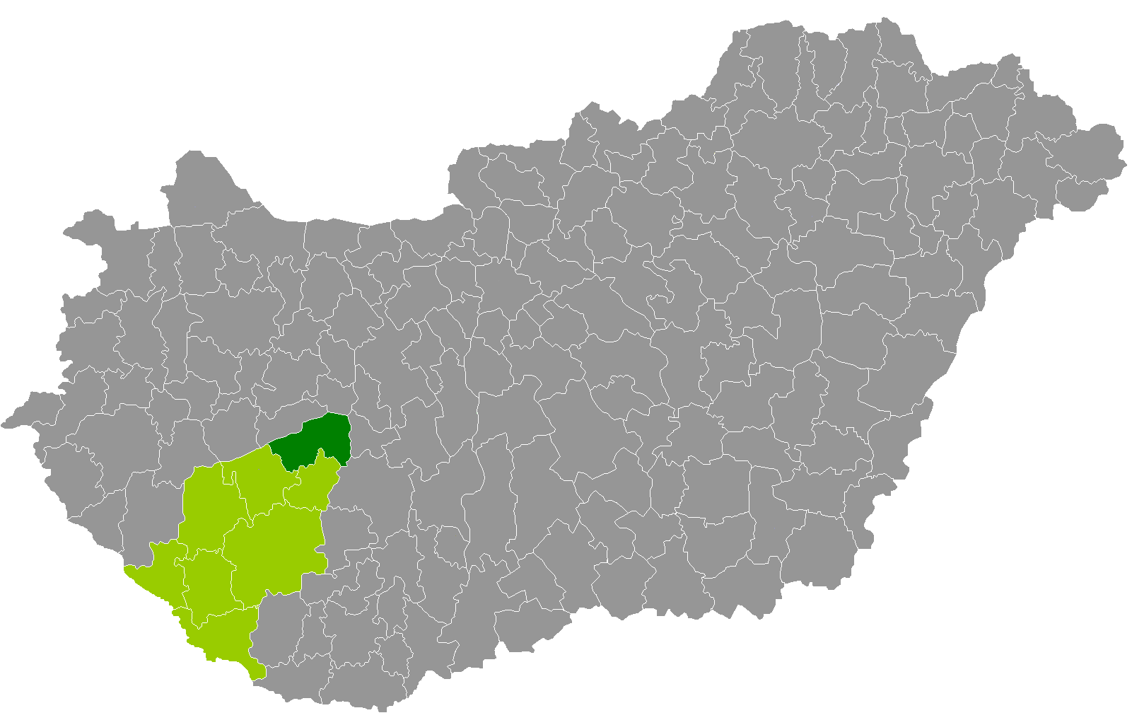 Location of Siófok District, Somogy, Hungary